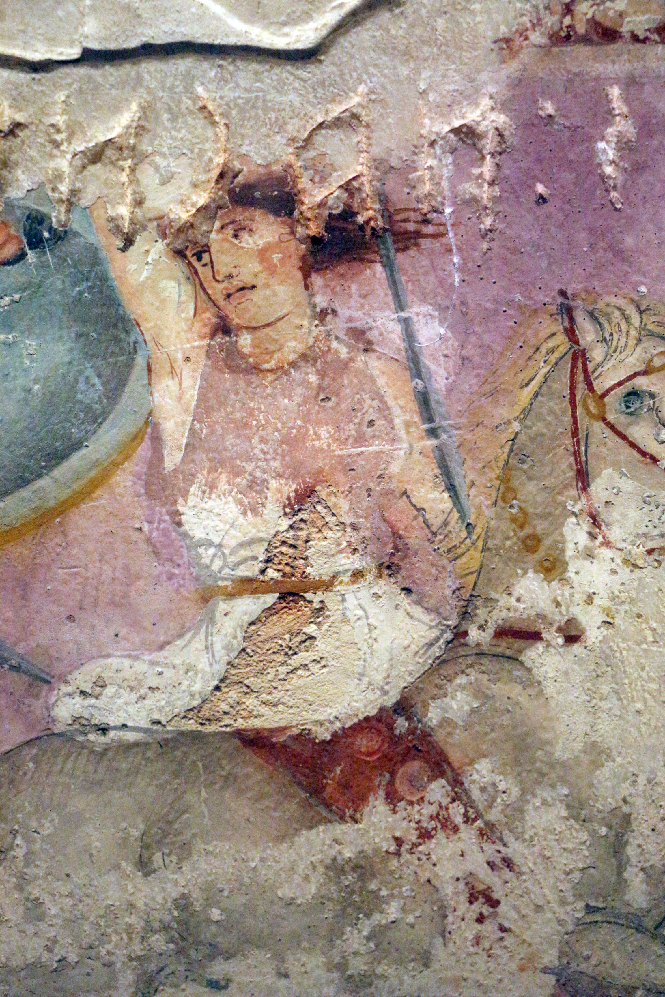 Sarcofago delle Amazzoni